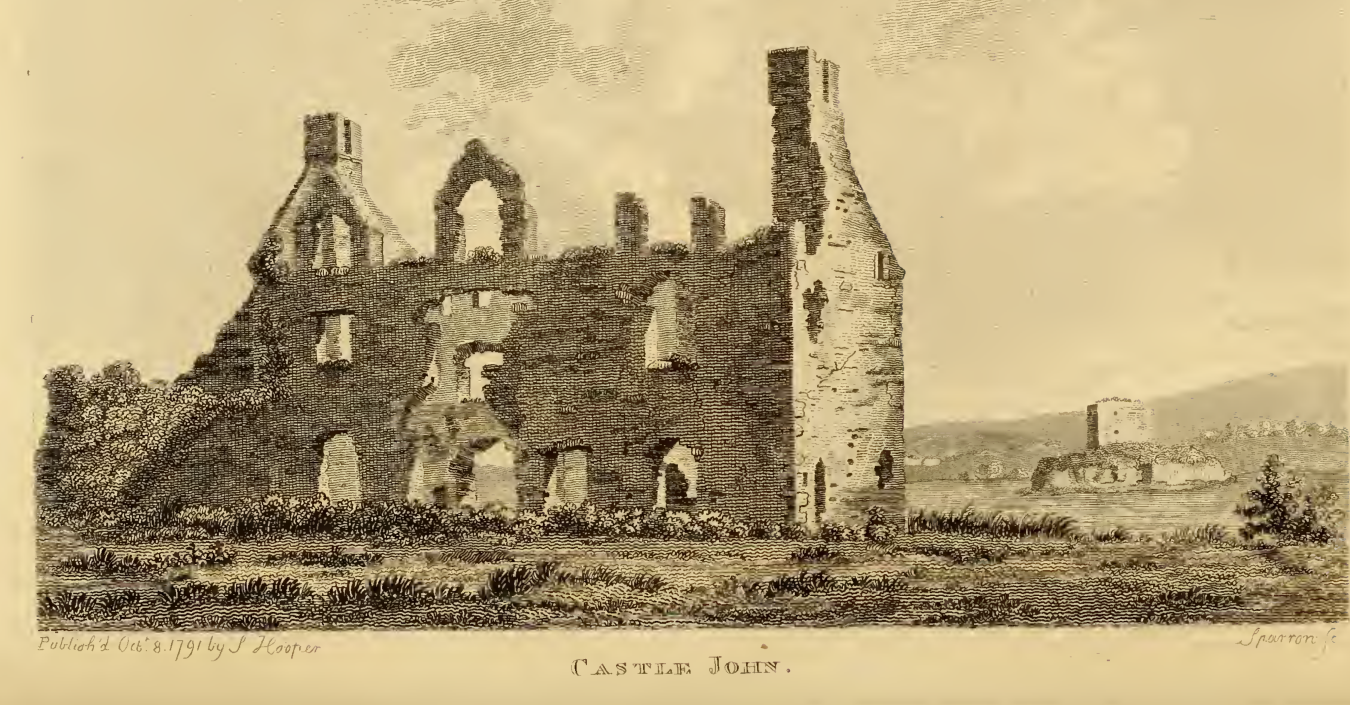 Illustration of Castle John and Prison Island circa 1791 Located at Gowly, Lough Scur, Castle constructed circa 1570 by John Reynolds of Clonduff, Prison Island constructed circa 1600 by Humphrey Reynolds, his son.